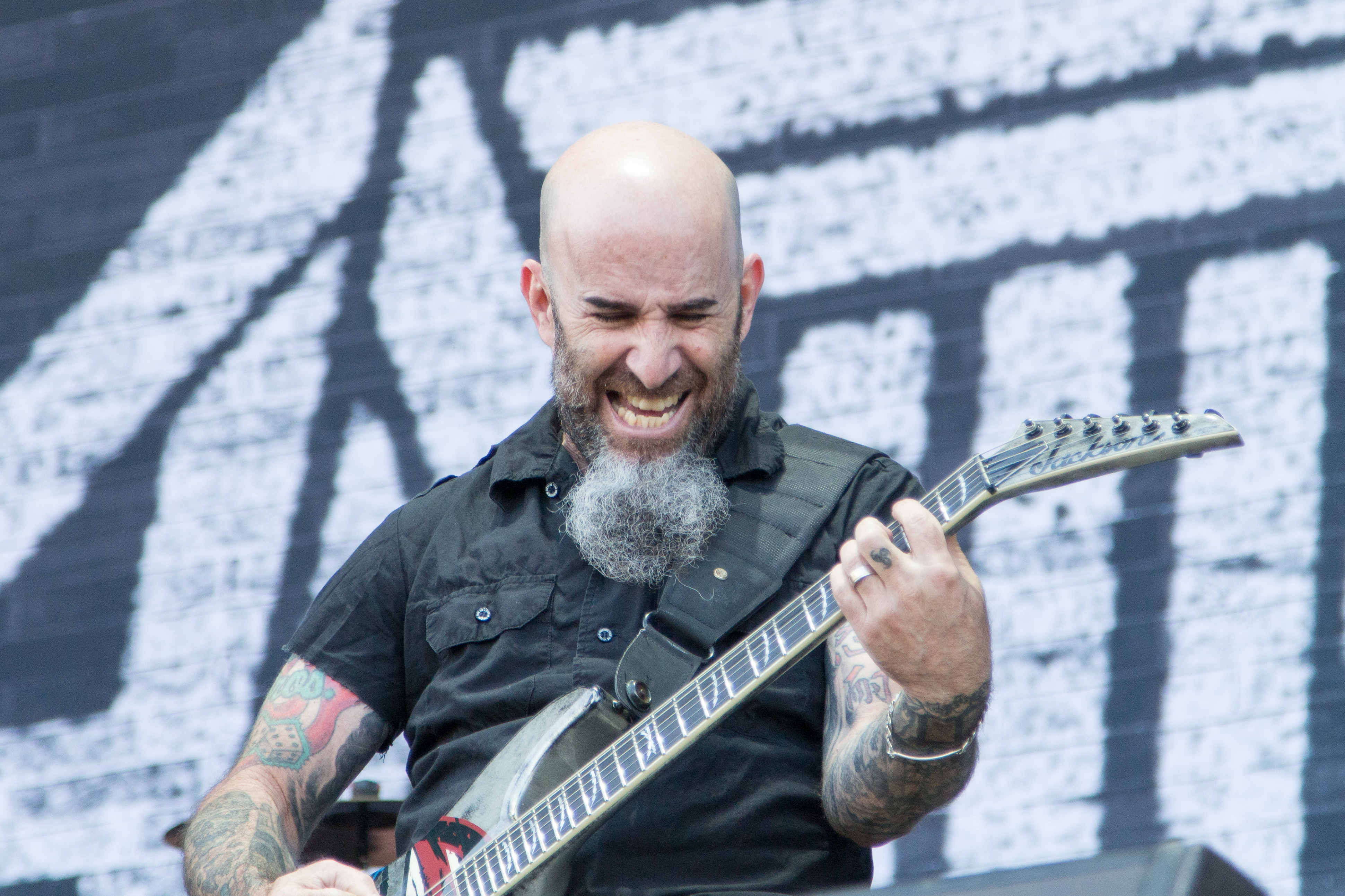 Scott Ian from Anthrax at Nova Rock 2014